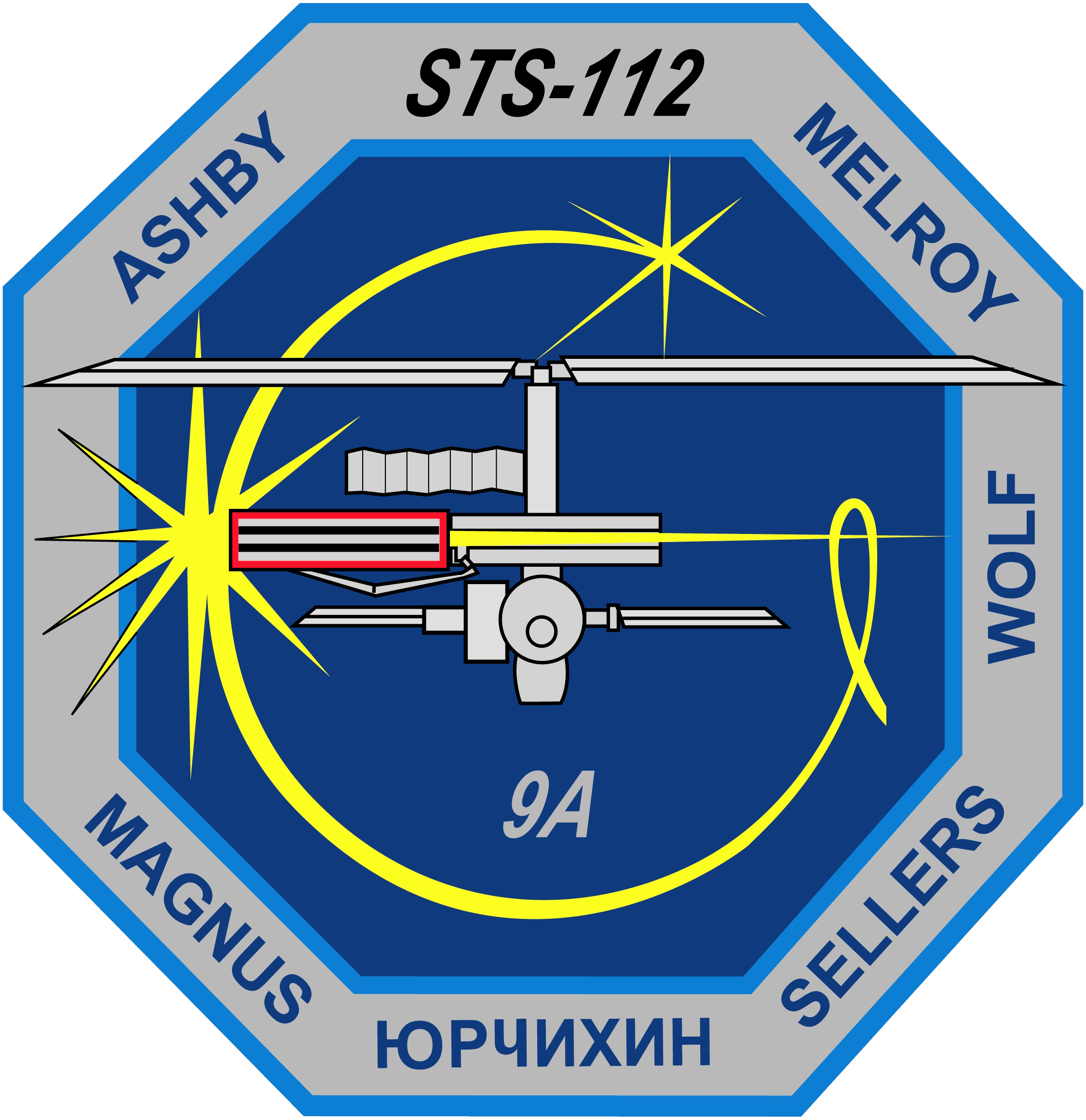 The STS-112 emblem symbolizes the ninth assembly mission (9A) to the International Space Station (ISS), a flight which is designed to deliver the Starboard 1 (S1) truss segment. The 30,000 pound truss segment will be lifted to orbit in the payload bay of the Space Shuttle Atlantis and installed using the ISS robotic arm. Three space walks will then be carried out to complete connections between the truss and ISS. Future missions will extend the truss structure to a span of over 350 feet so that it can support the solar arrays and radiators which provide the electrical power and cooling for ISS. The STS-112 emblem depicts ISS from the viewpoint of a departing shuttle, with the installed S1 truss segment outlined in red. A gold trail represents a portion of the Shuttle rendezvous trajectory. Where the trajectory meets ISS, a nine-pointed star represents the combined on-orbit team of six shuttle and three ISS crew members who together will complete the S1 truss installation. The trajectory continues beyond the ISS, ending in a six-pointed star representing the Atlantis and the STS-112 crew.